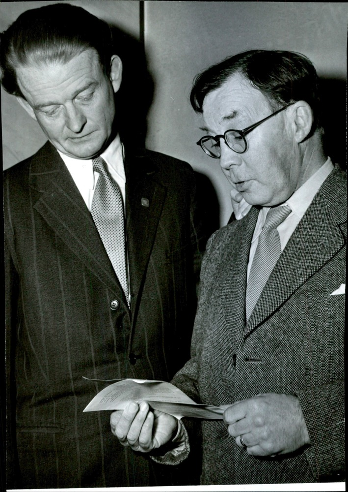 Pastor Curt Norell och kursledaren lektor Karl Thunell. Bilden infördes i Svenska Dagbladet 1953-01-13 sid 7 (